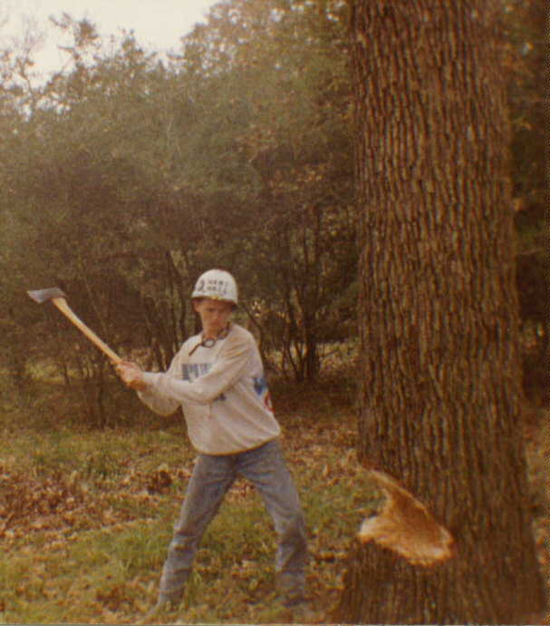 A Texas A&M student cutting down a tree for an early 90's Aggie Bonfire